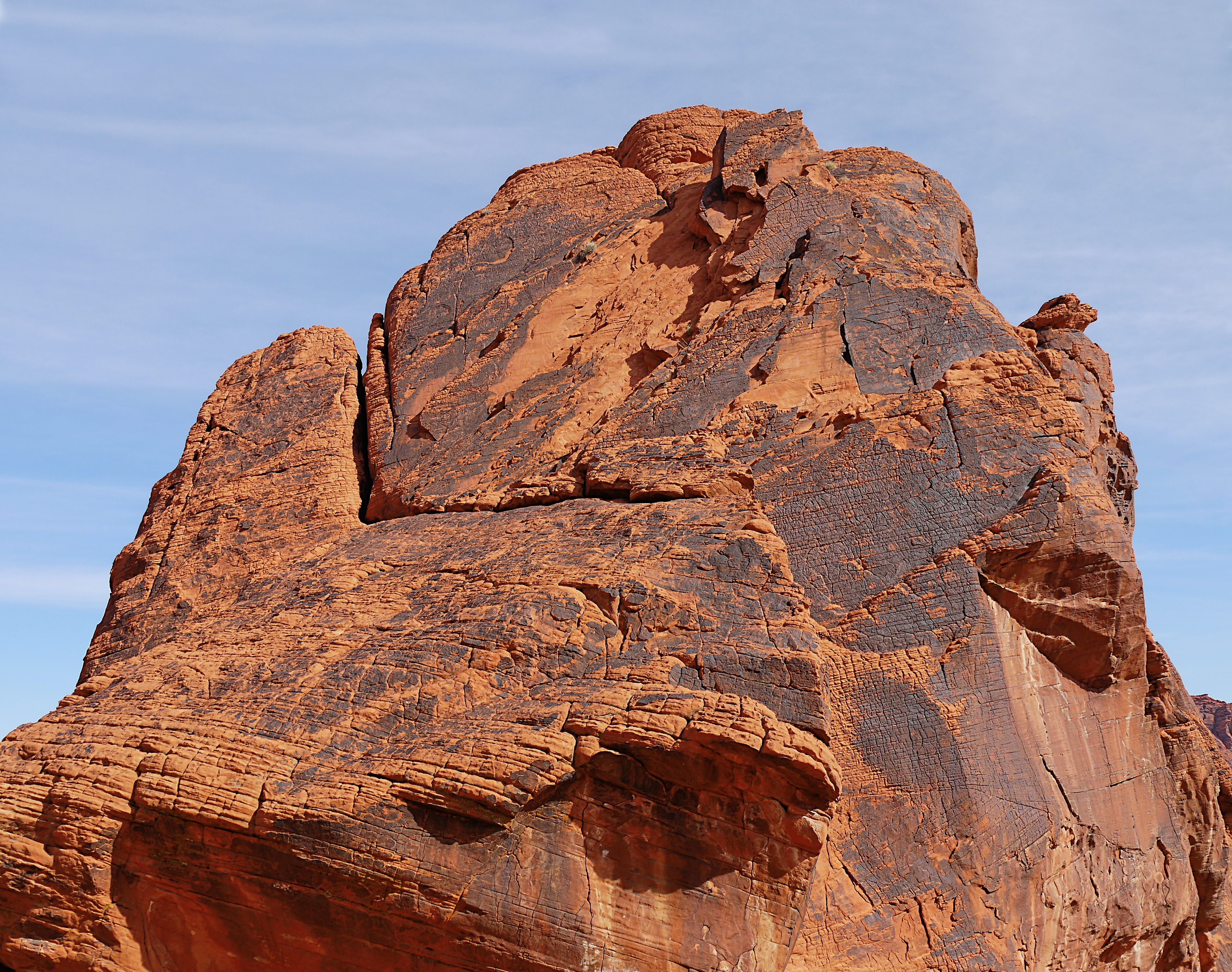 Desert varnish formed on Aztec Sandstone.